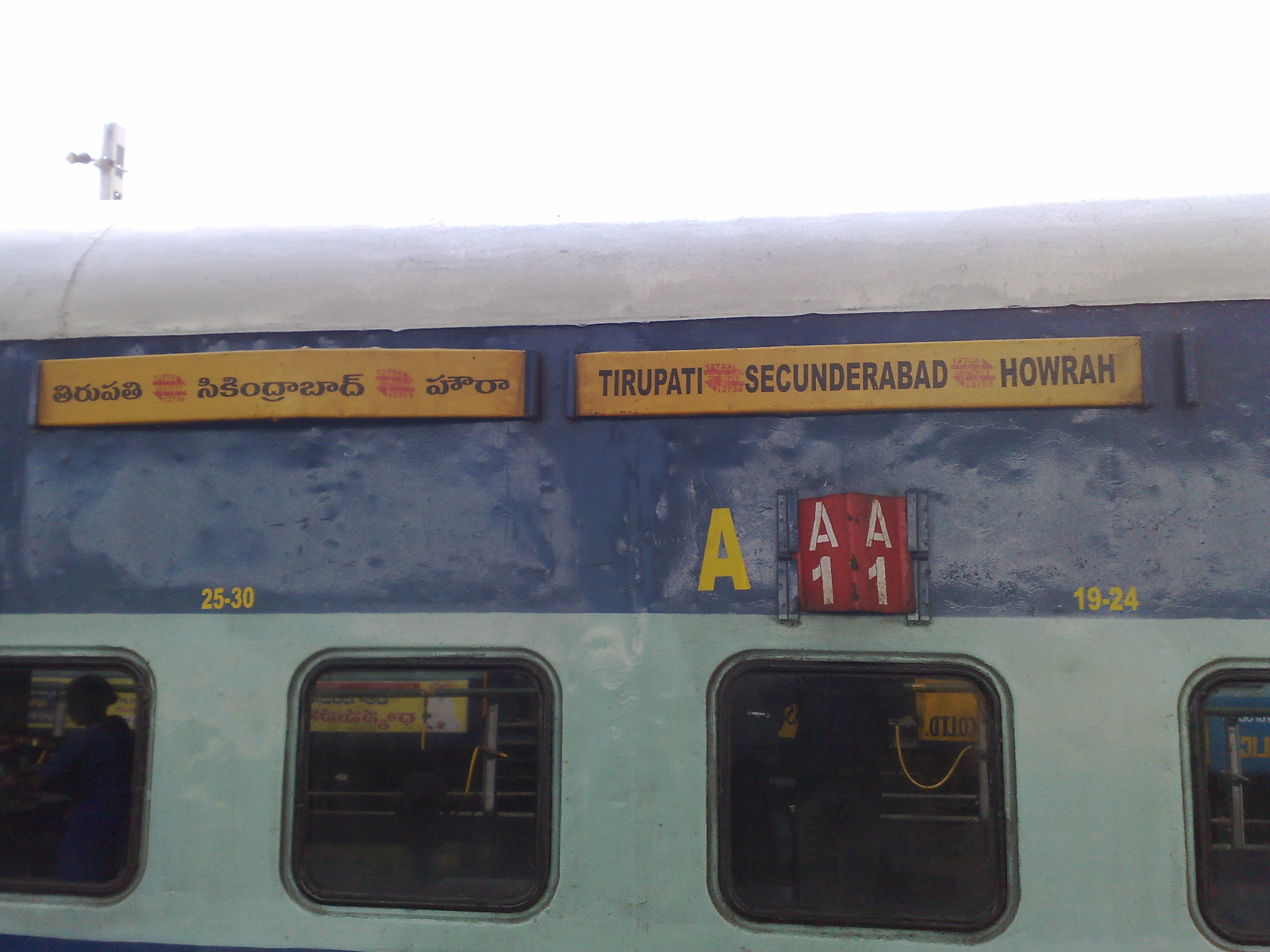 12733 Narayanadri Express - AC 2 tier